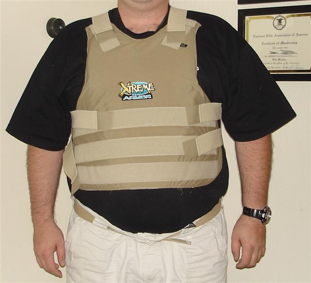 Bulletproof vest